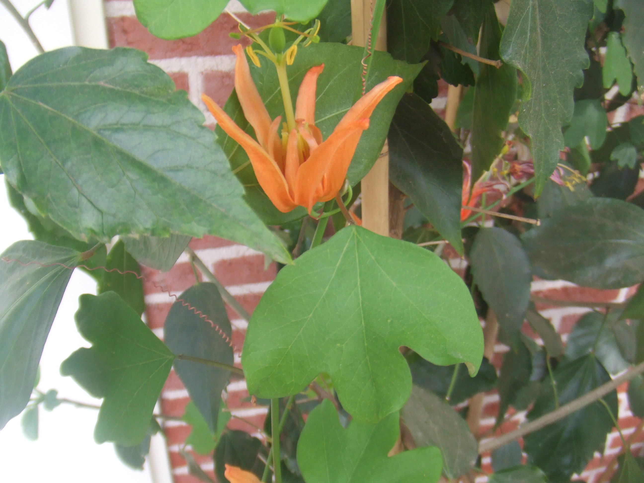 Passiflora aurantia, picture taken at Passiflorahoeve in Harskamp, The Netherlands